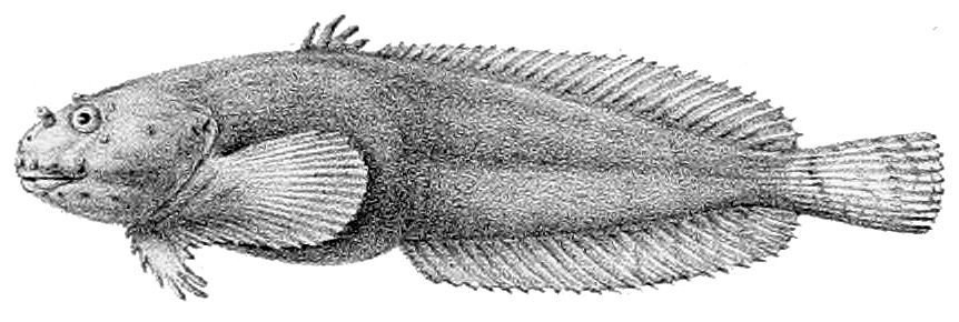 Liparis montagui